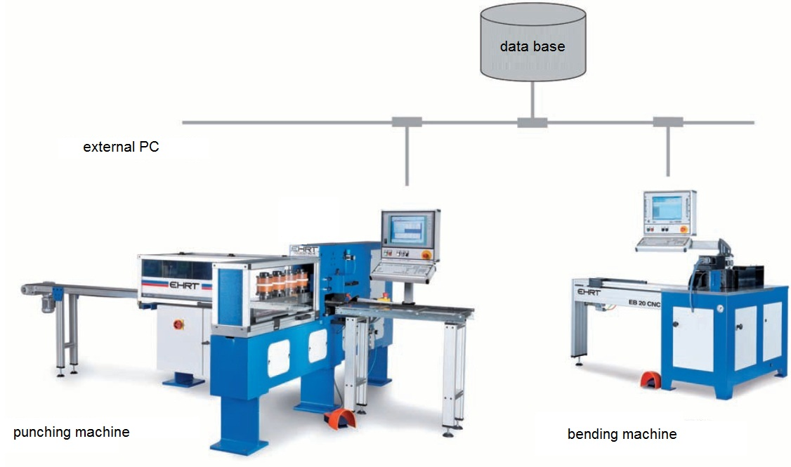 Integration of machines in a network of PCs